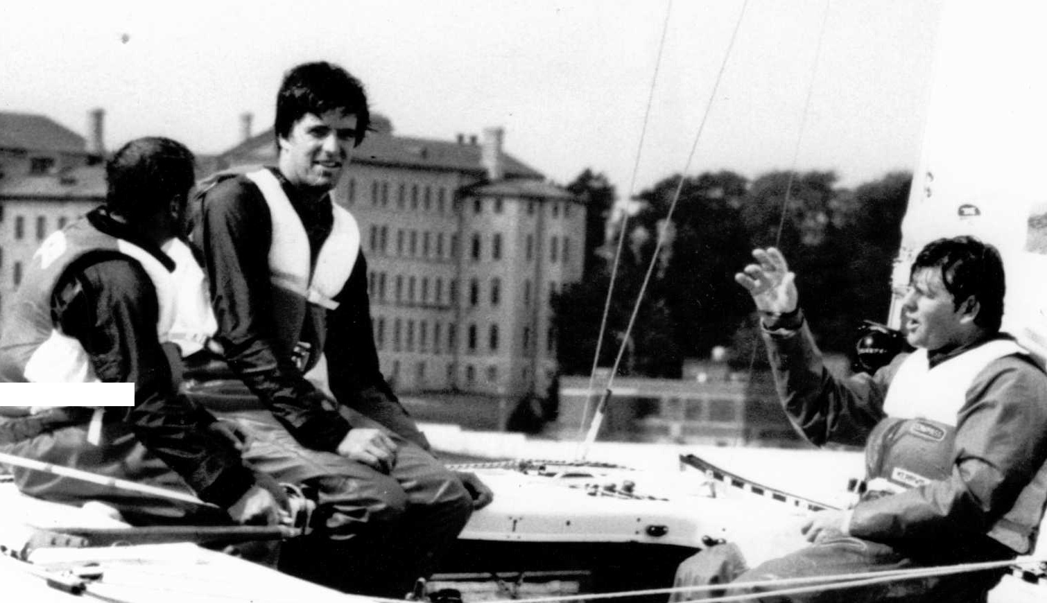 1984 Olympic Trails, Kingston